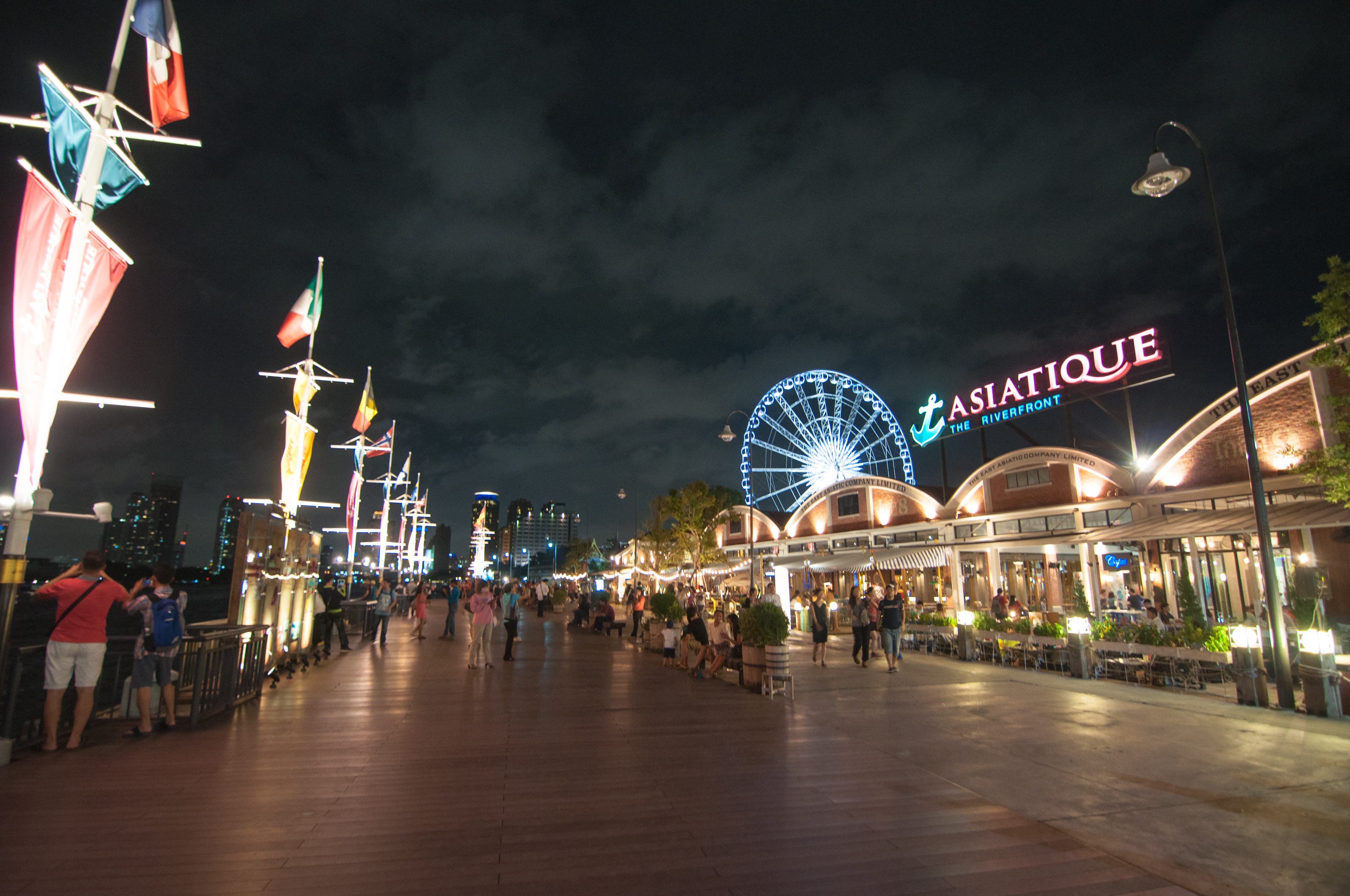 Waterfront promenade of Asiatique, a mall / night market in Bangkok, Thailand